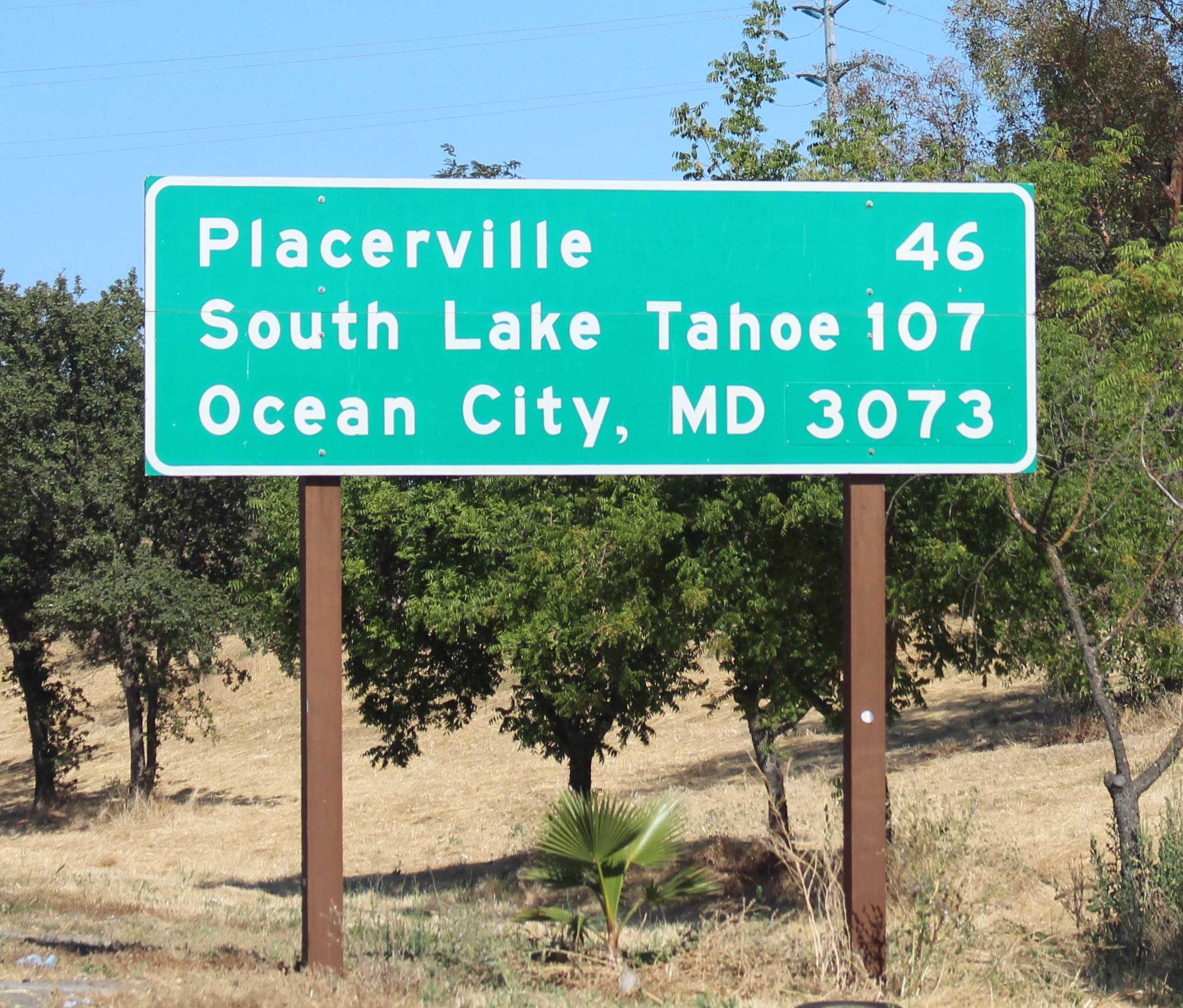 A sign at the west end of U.S. Route 50 in West Sacramento, California that gives the distance to the other end in Ocean City, Maryland. Photographed by user Coolcaesar on July 3, 2020.